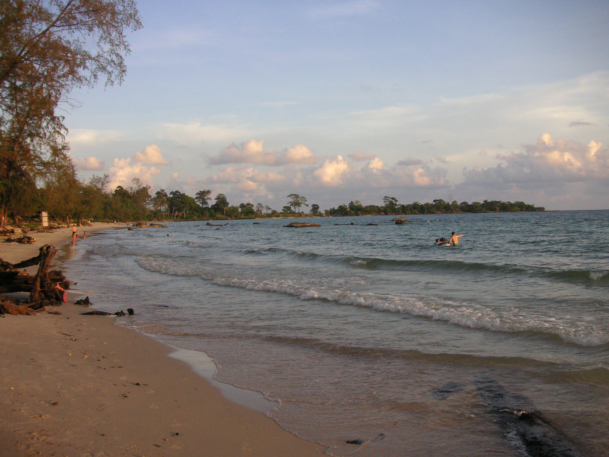 Independence Beach near Sihanoukville